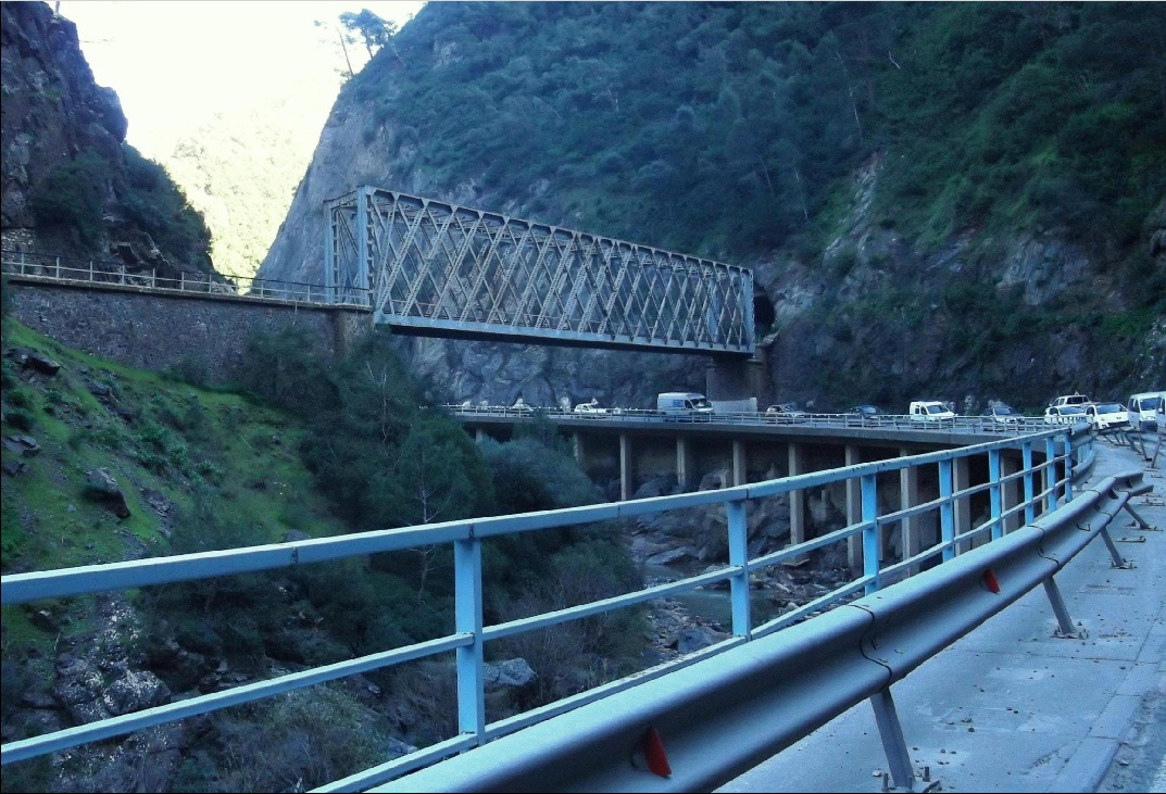 chefa photo medea